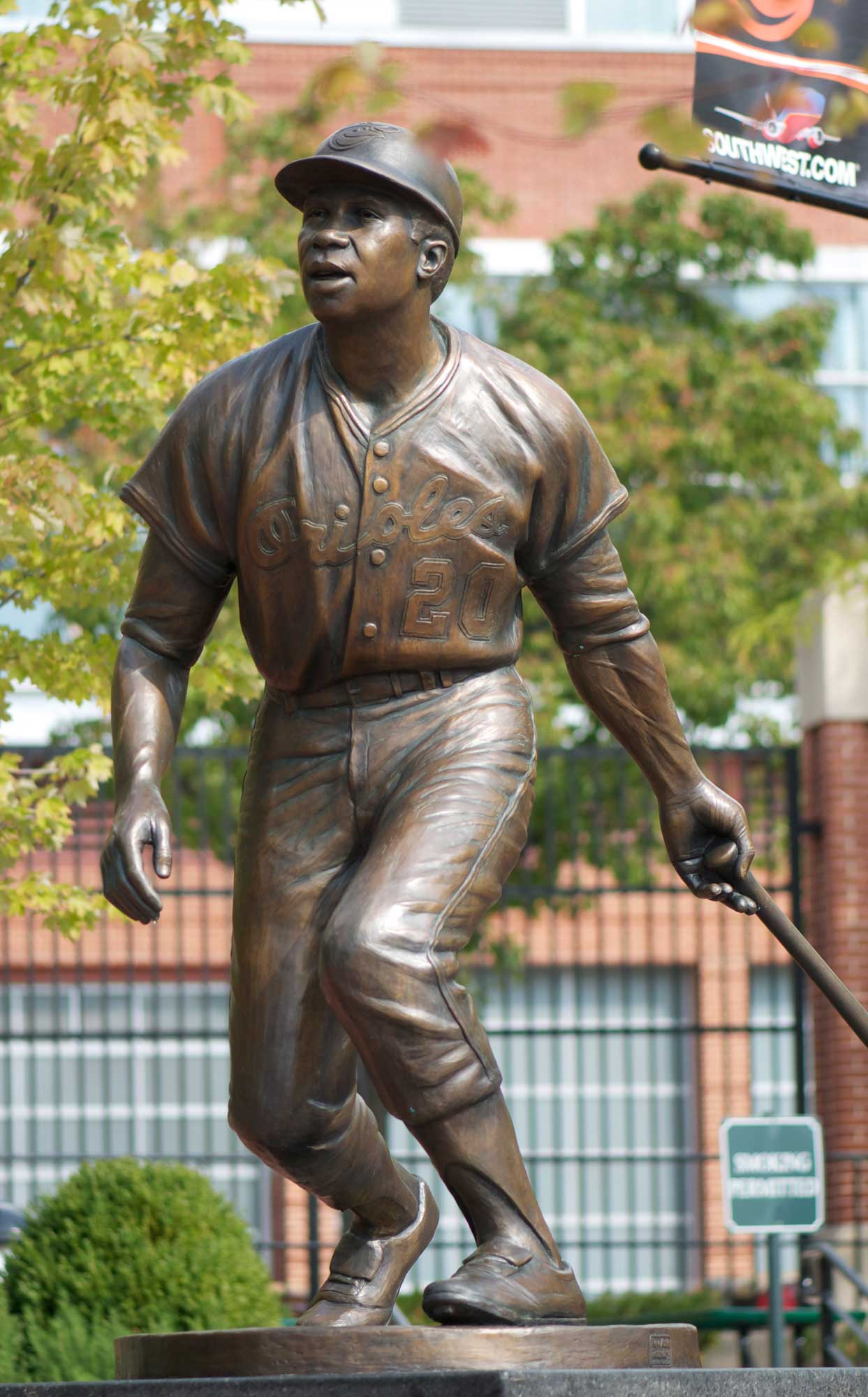 Frank Robinson, Baltimore Orioles Legend